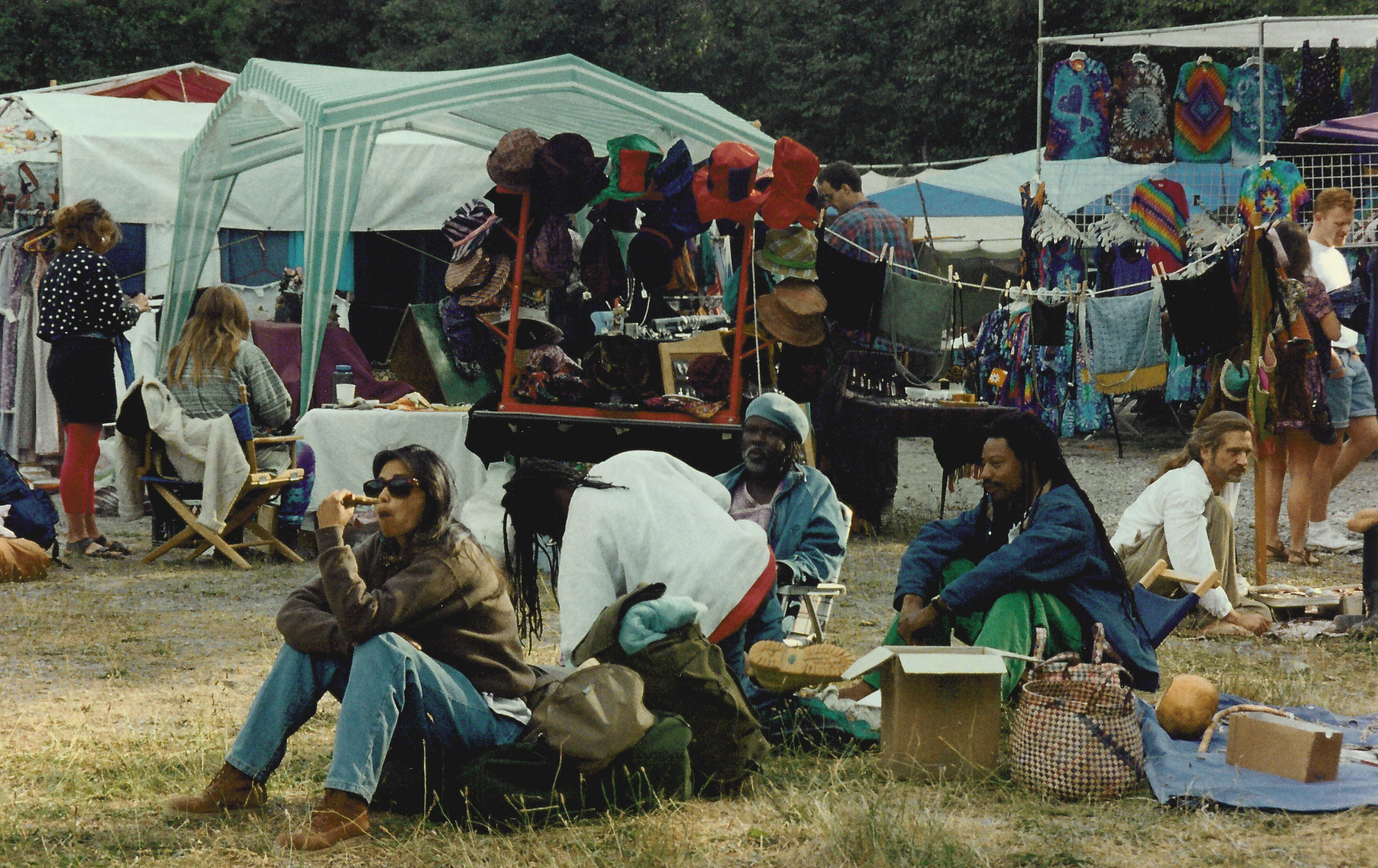 Sitting around near the craft booths, Starlight Mountain Festival